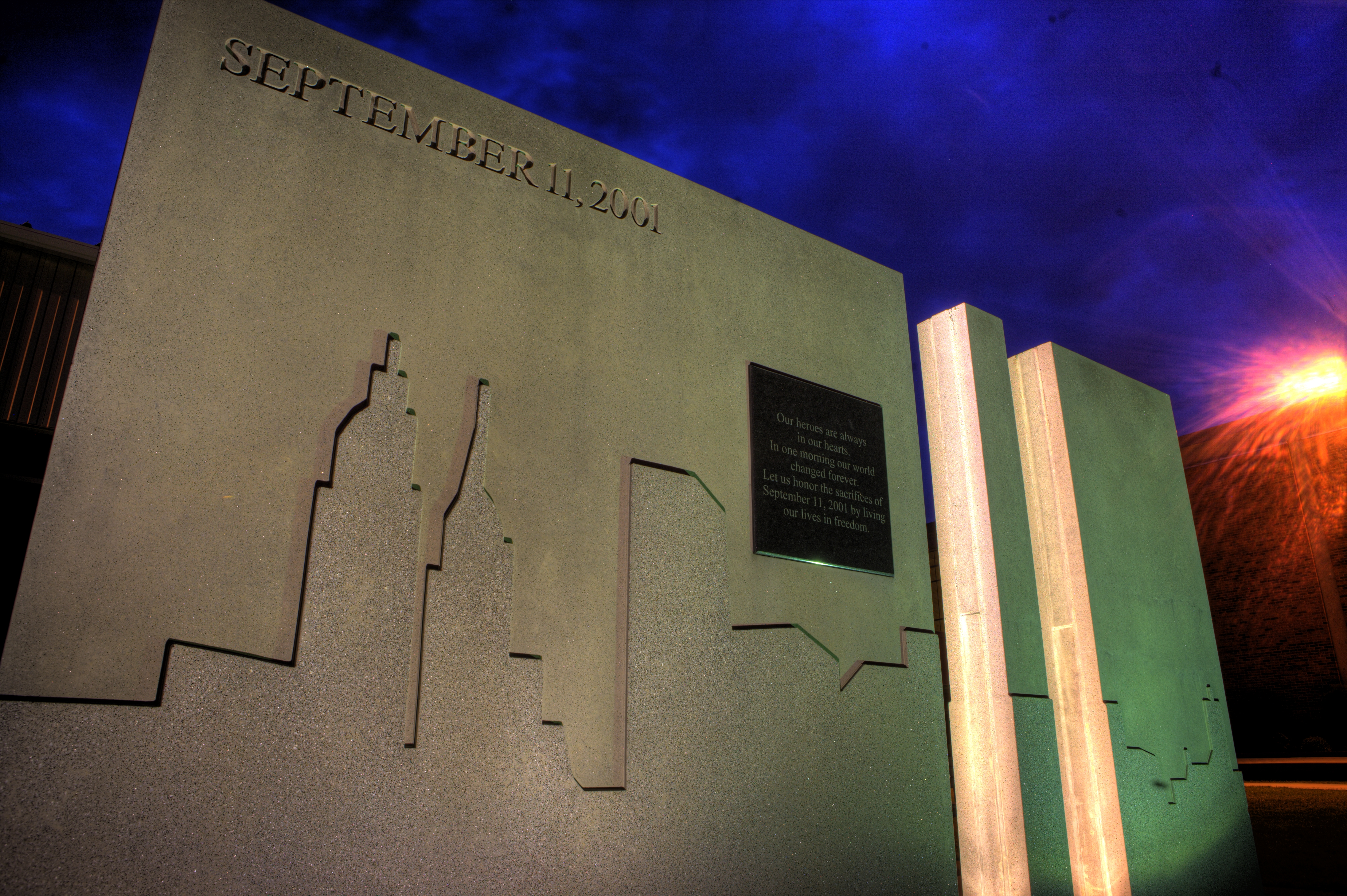 Monroe Community College September 11th Remembrance Walk